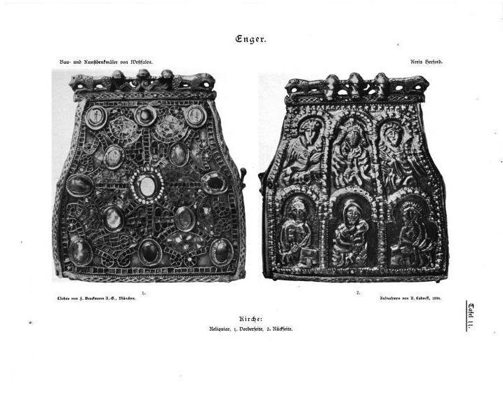 Pages from 1908 book series Bau- und Kunstdenkmäler von Westfalen (